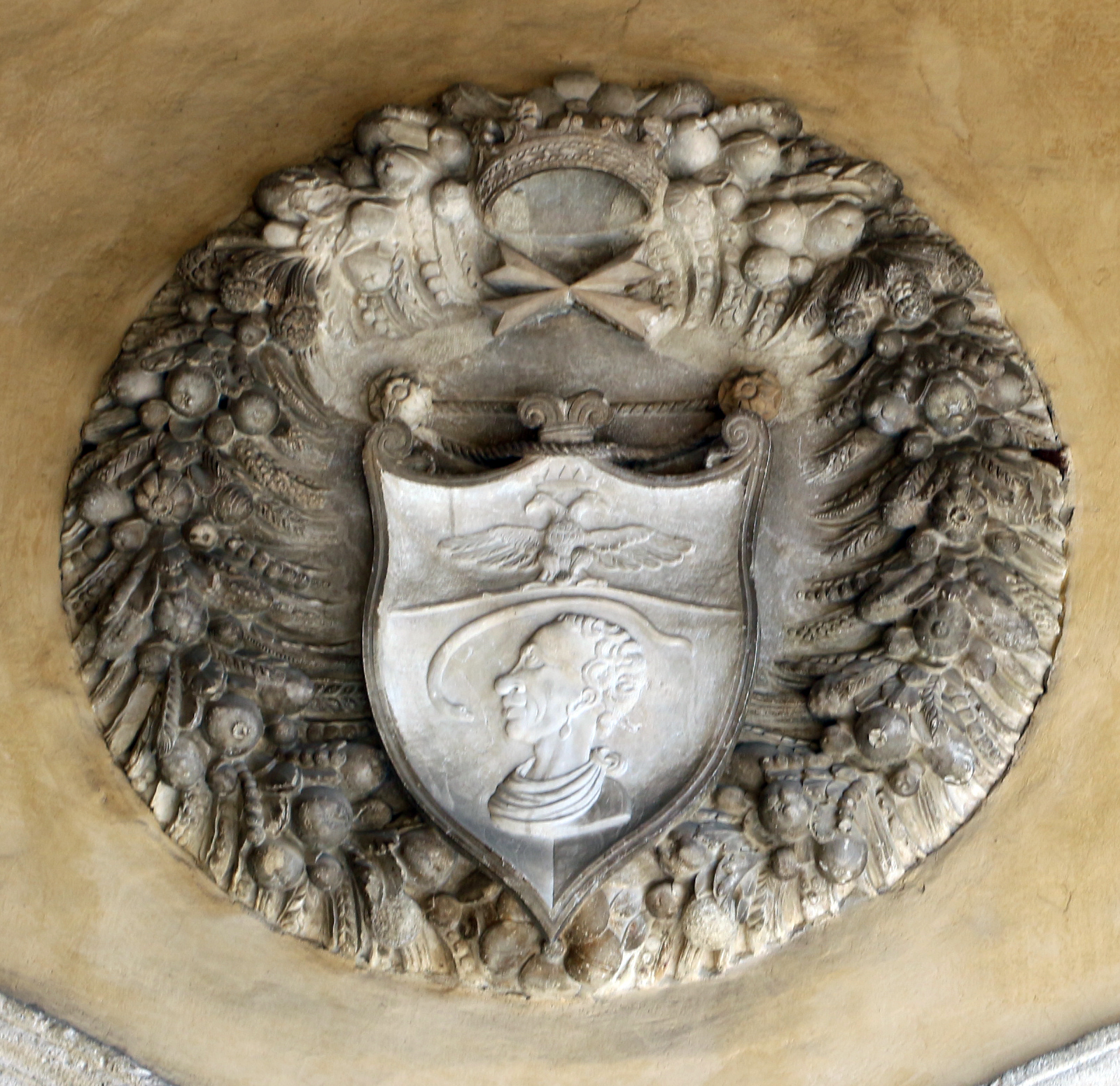 Palazzo Chigi Saracini